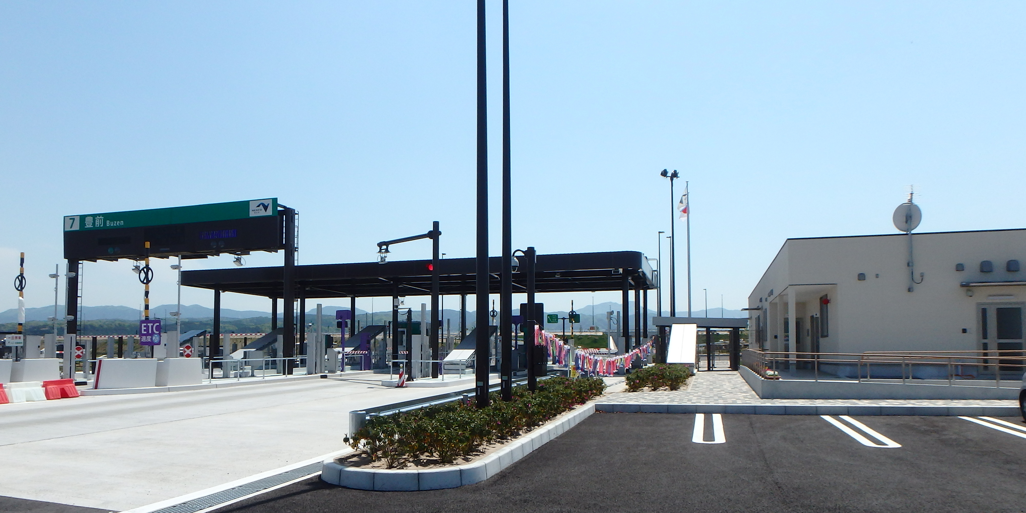 Buzen Inter Change,Fukuoka prefecture,Japan